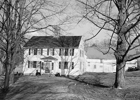 General John Sullivan House, Newmarket Road, Durham (Strafford County, New Hampshire) (cropped)